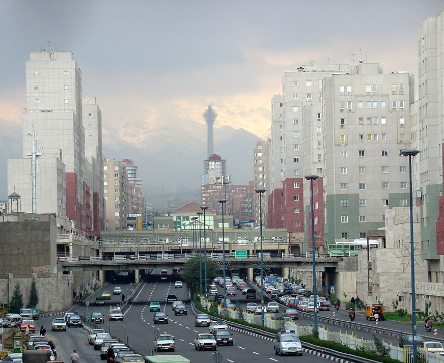 Navvab Street, Tehran, Iran. Milad Tower in the distance is the world's 4th tallest. Snow on the Alborz Mountains in the far distance.